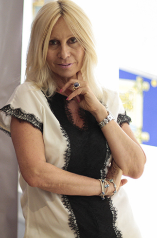 Ana Rosenfeld, en la presentación de su libro en 2013.